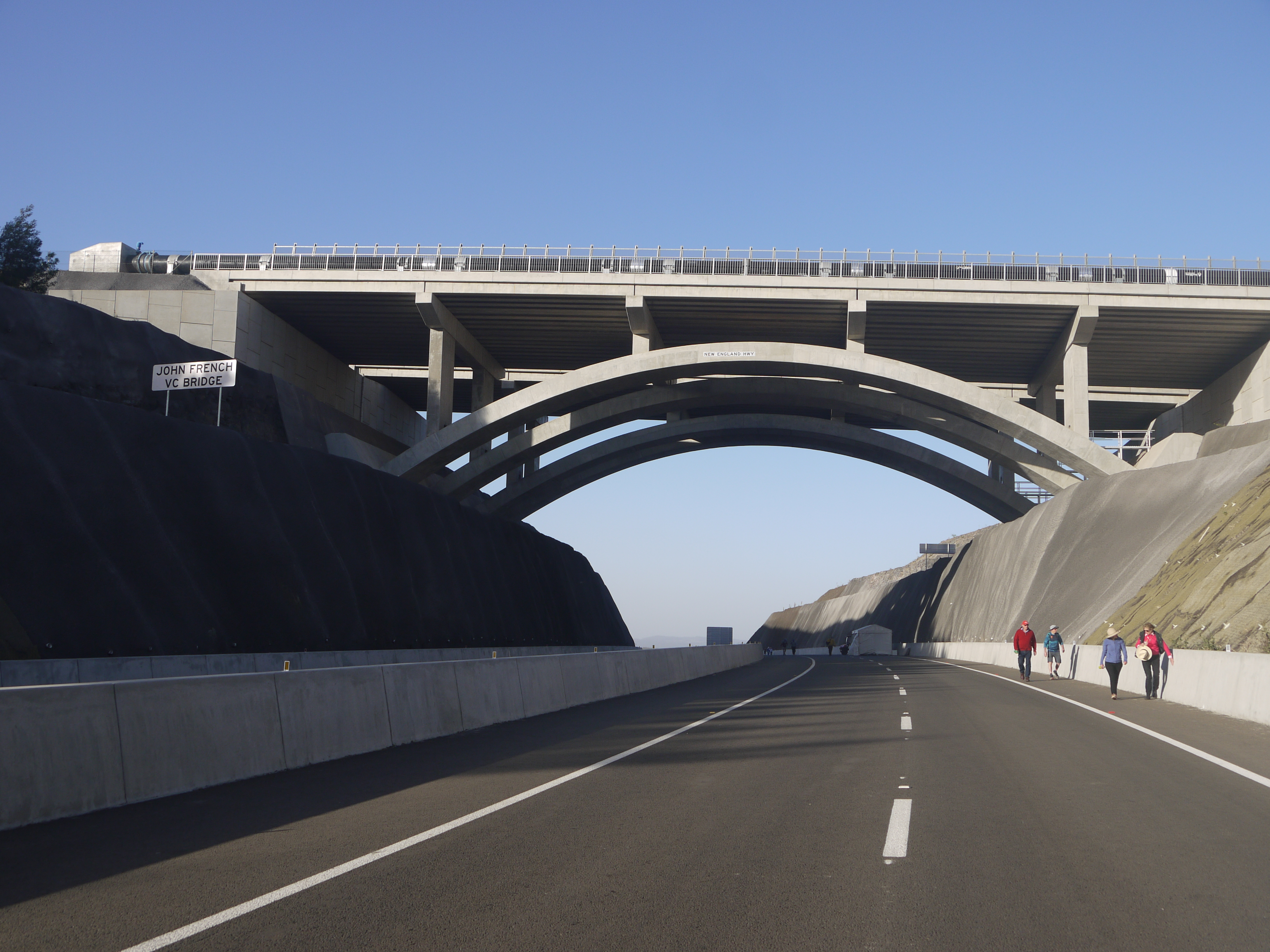 New England Hwy (John French VC) Bridge on Toowoomba Second Range Crossing. Taken on Community Open Day, 7 September 2019.